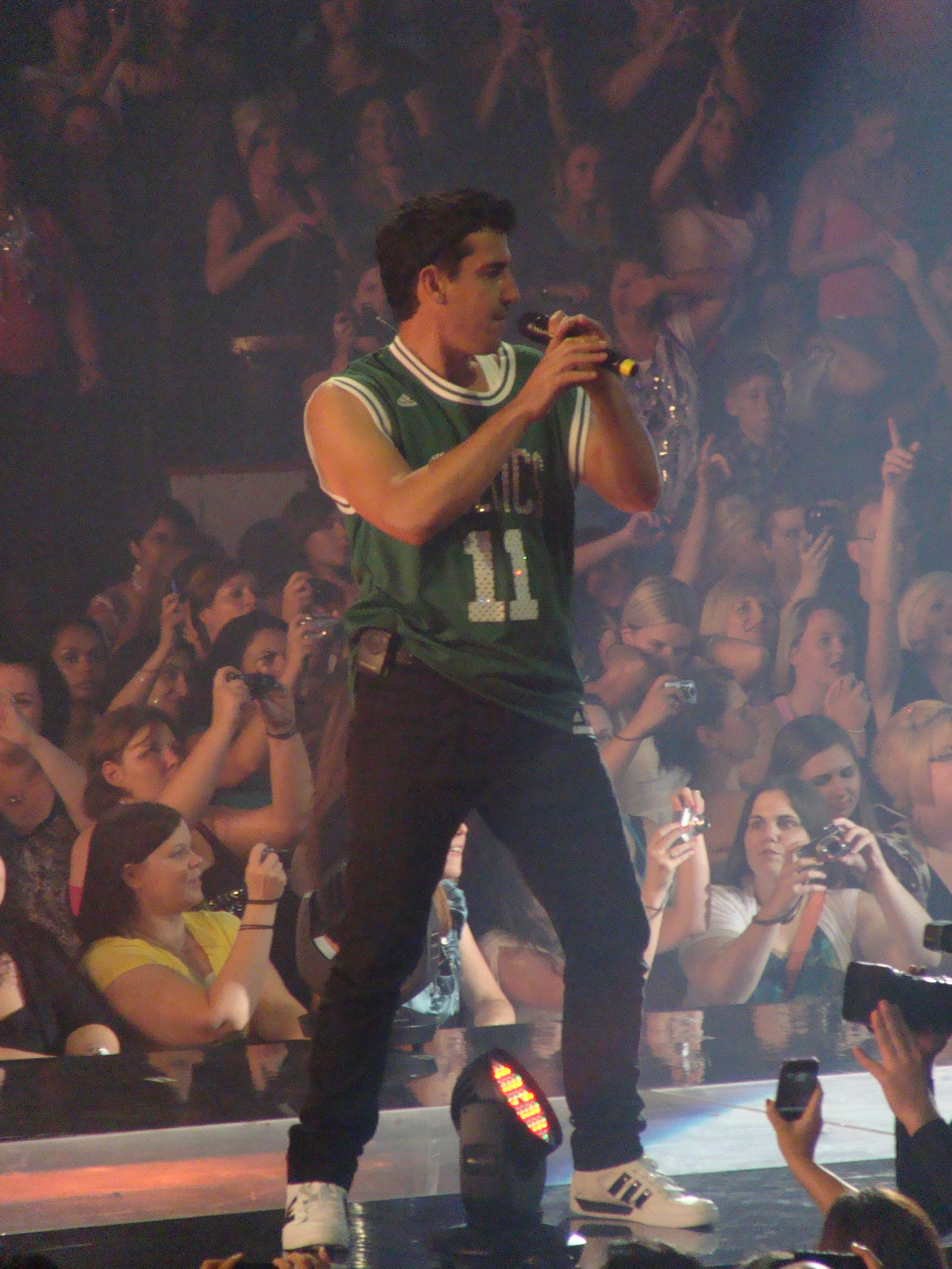 Jonathan Knight performing